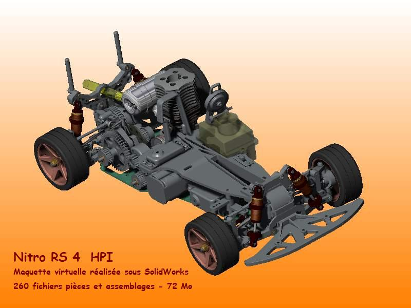 Virtual mockup created with SolidWorks software